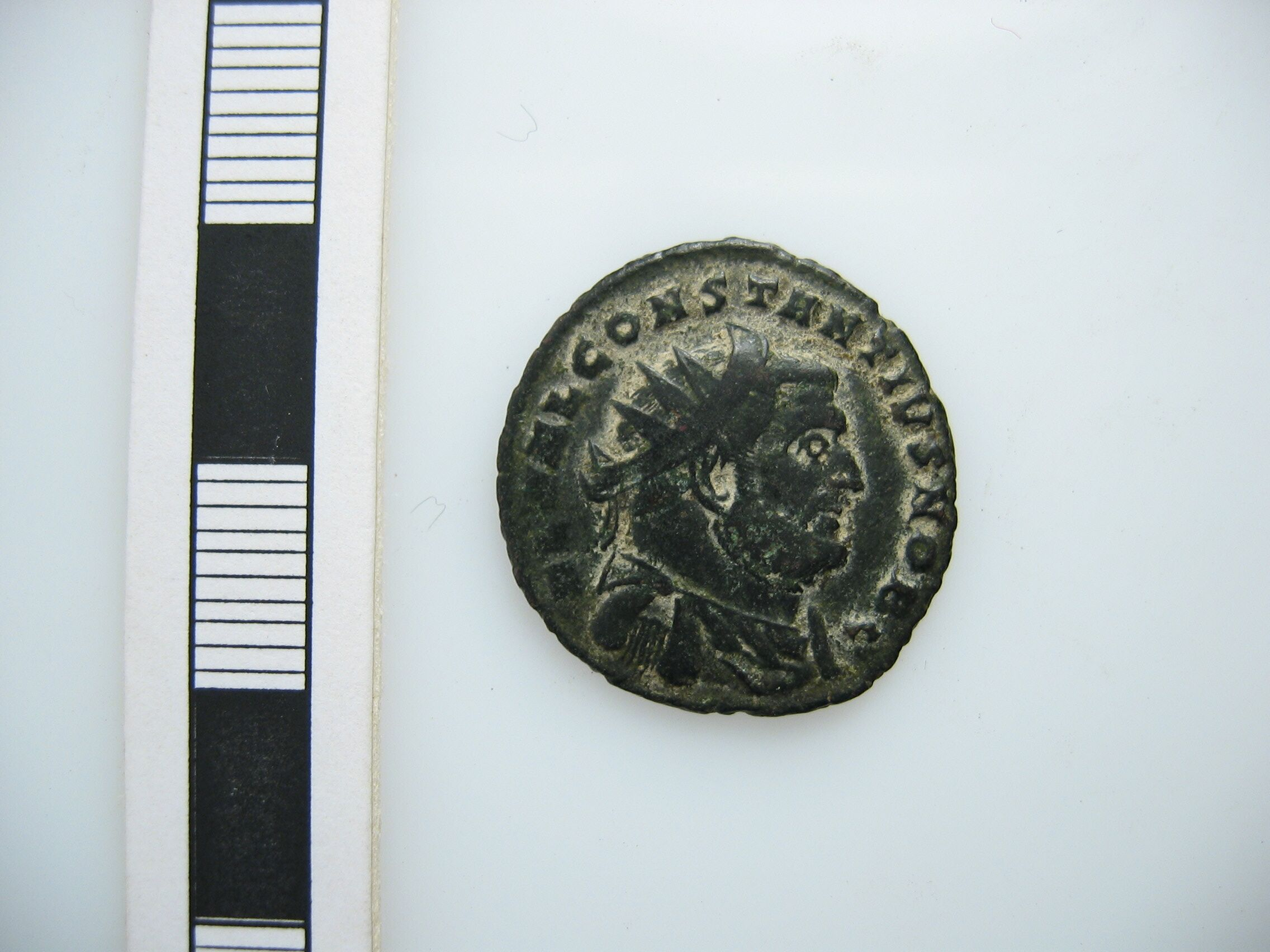 A Roman copper alloy radiate of Constantius I (AD 293-306), dating to c. AD 303. Mint of Carthage. RIC VI, p. 427, no. 35a. Dimensions: diameter 20.01 mm; weight 3.14 g